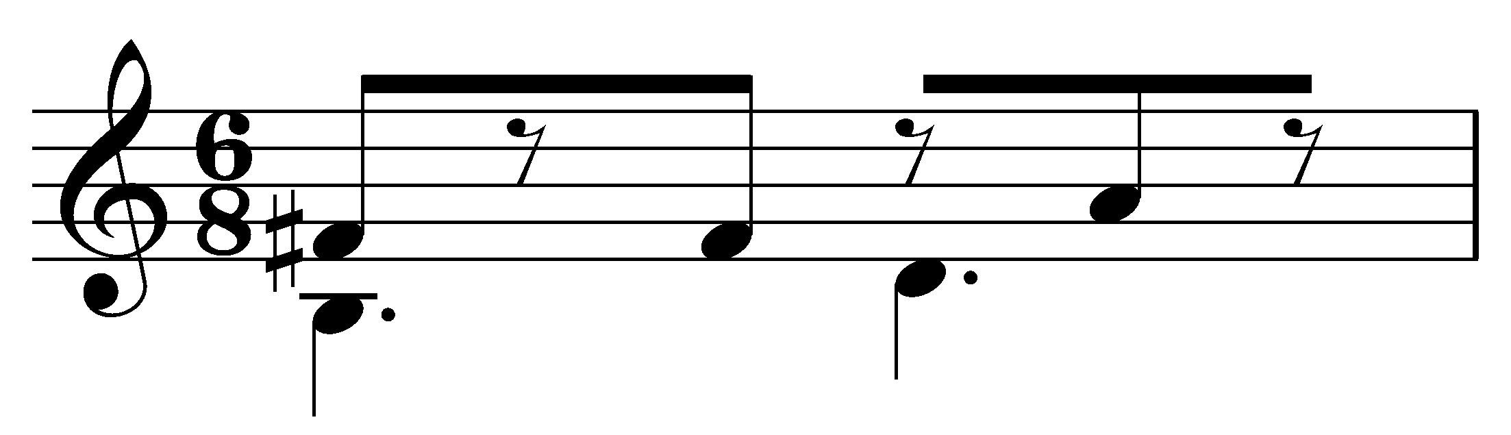 Ghanaian gyil (an xylophone)